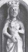 Maria of Montferrat